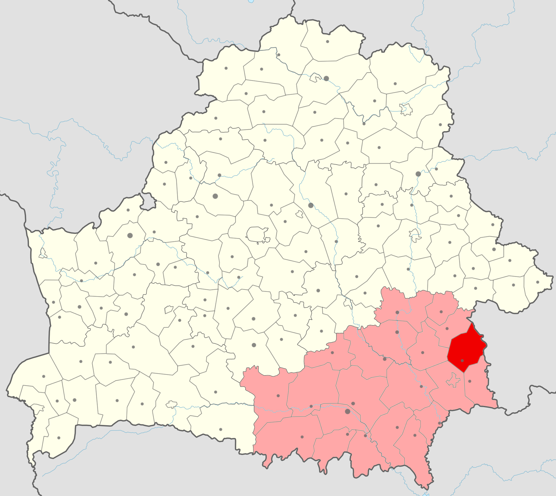 Location of Vietkaŭski rajon (red) in Homieĺskaja voblasć (light red) in Belarus.